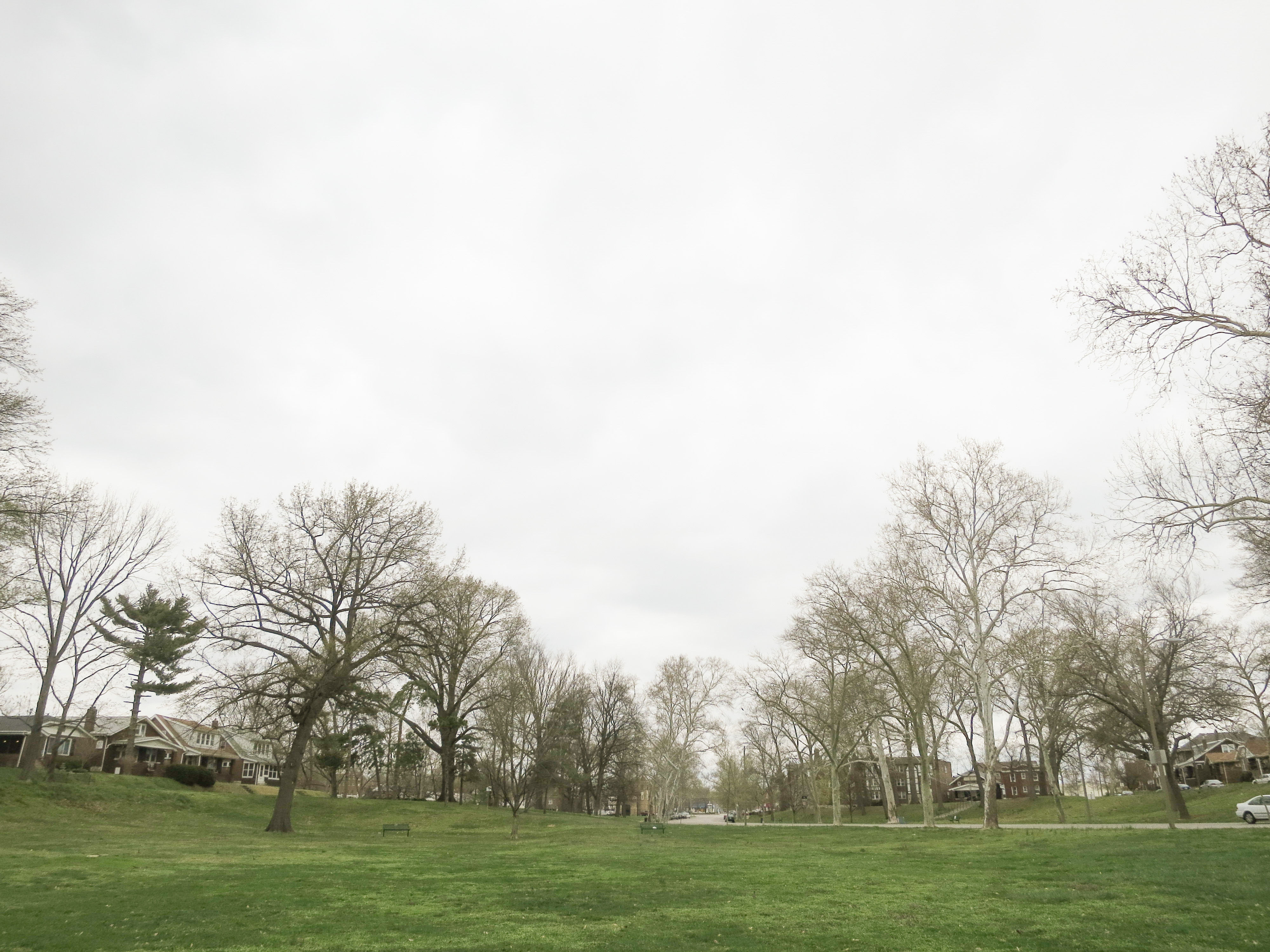 Christy Park in Princeton Heights